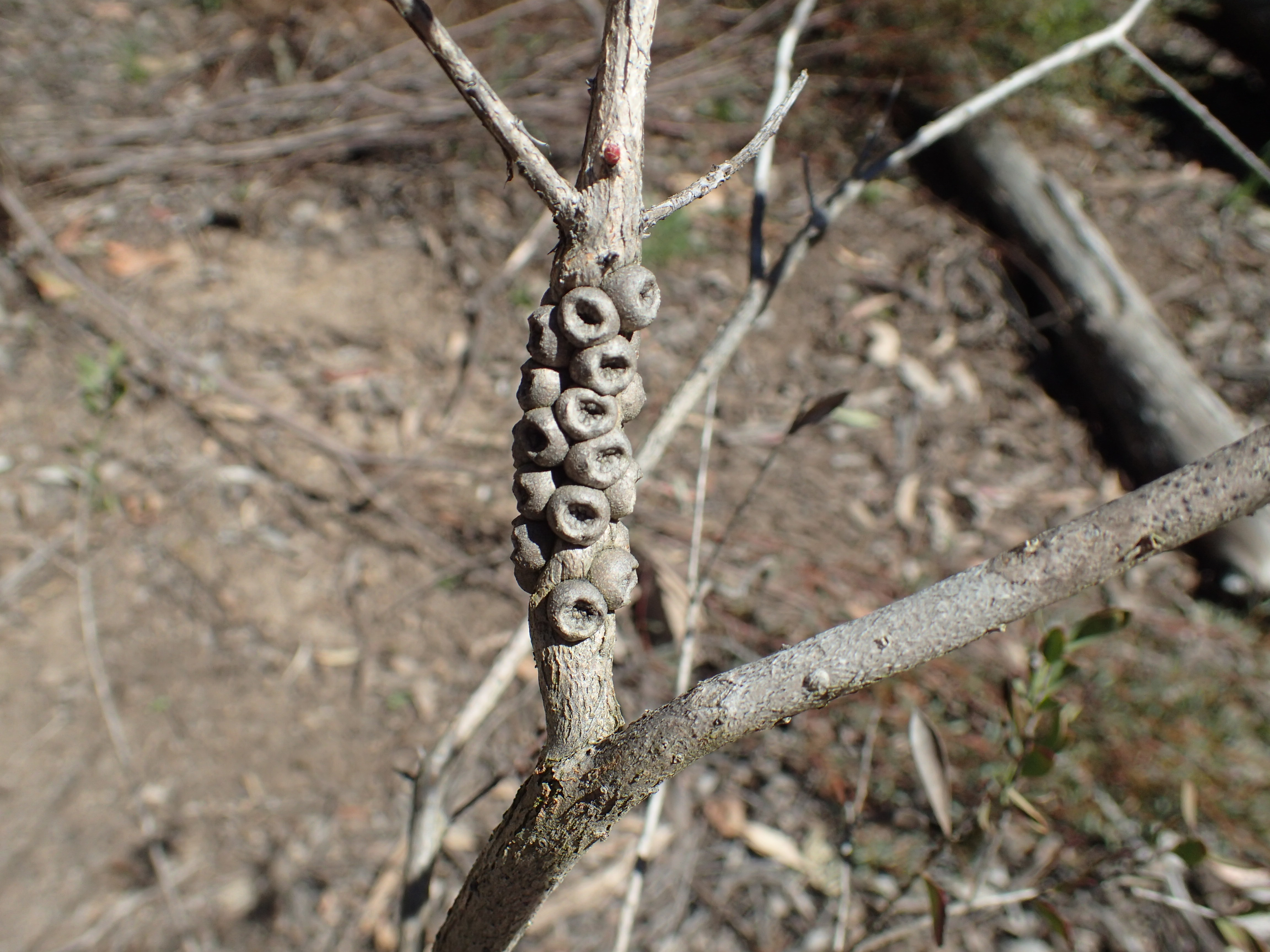 Melaleuca macronychia subsp. macronychia growing in the Australian National Botanic Gardens